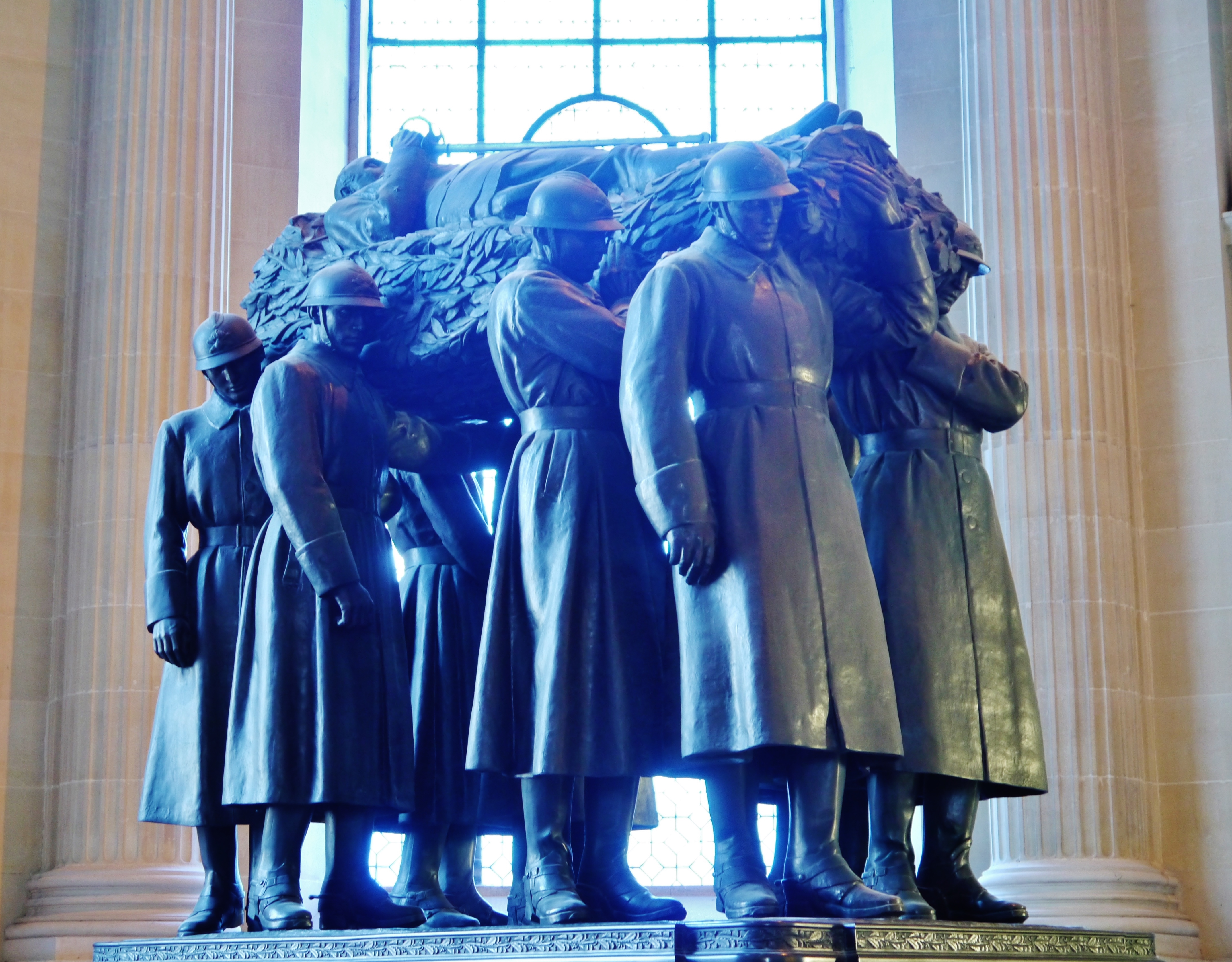 Burial of Ferdinand Foch inside the Dôme des Invalides, Paris, Region of Île-de-France, France